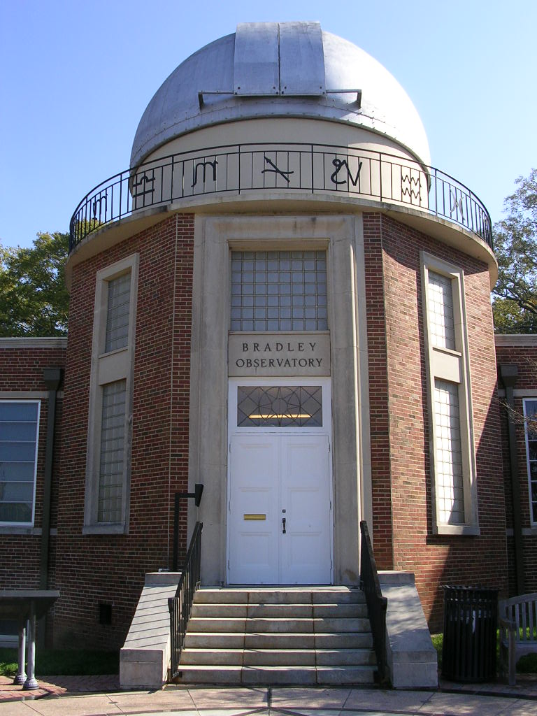 Bradley Observatory at Agnes Scott College in Decatur, Georgia. 33°45′55″N 84°17′39″W / 33.76528°N 84.29417°W